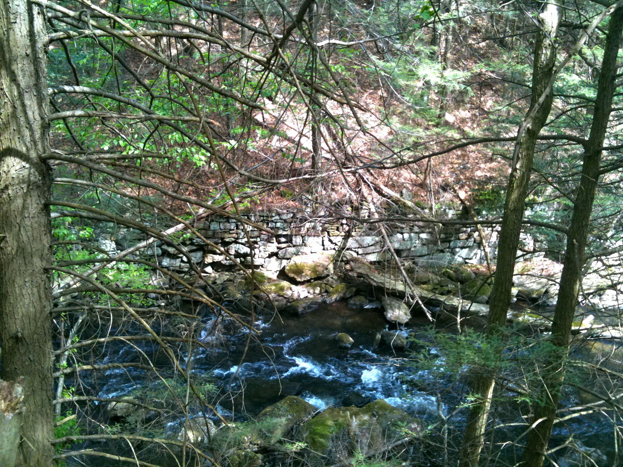 Jericho Blue-Blazed Trail. Hancock Brook on Hancock Brook Trail.